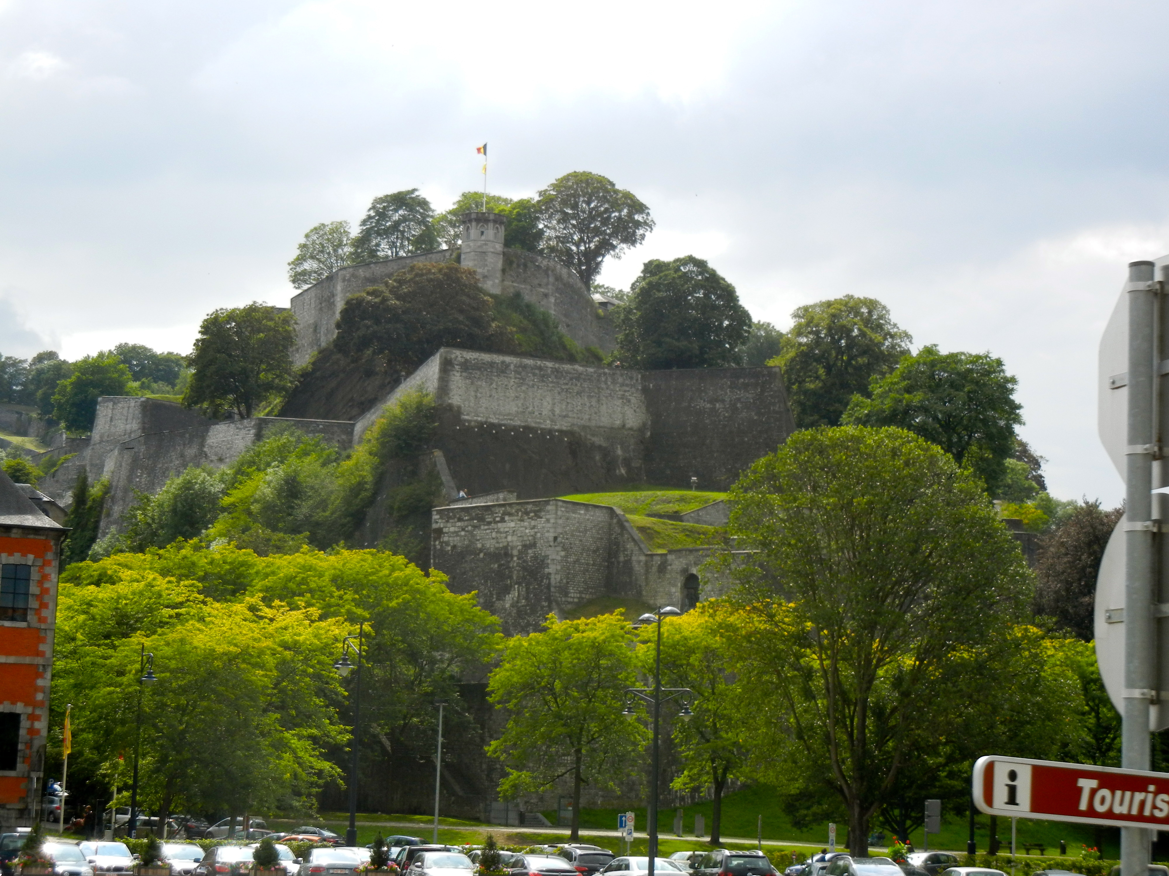 The citadel of the city Namur, in the province of Namur. View taken from the Porte de Sambre. The citadel is located between 2 rivers: la Meuse and la Sambre.